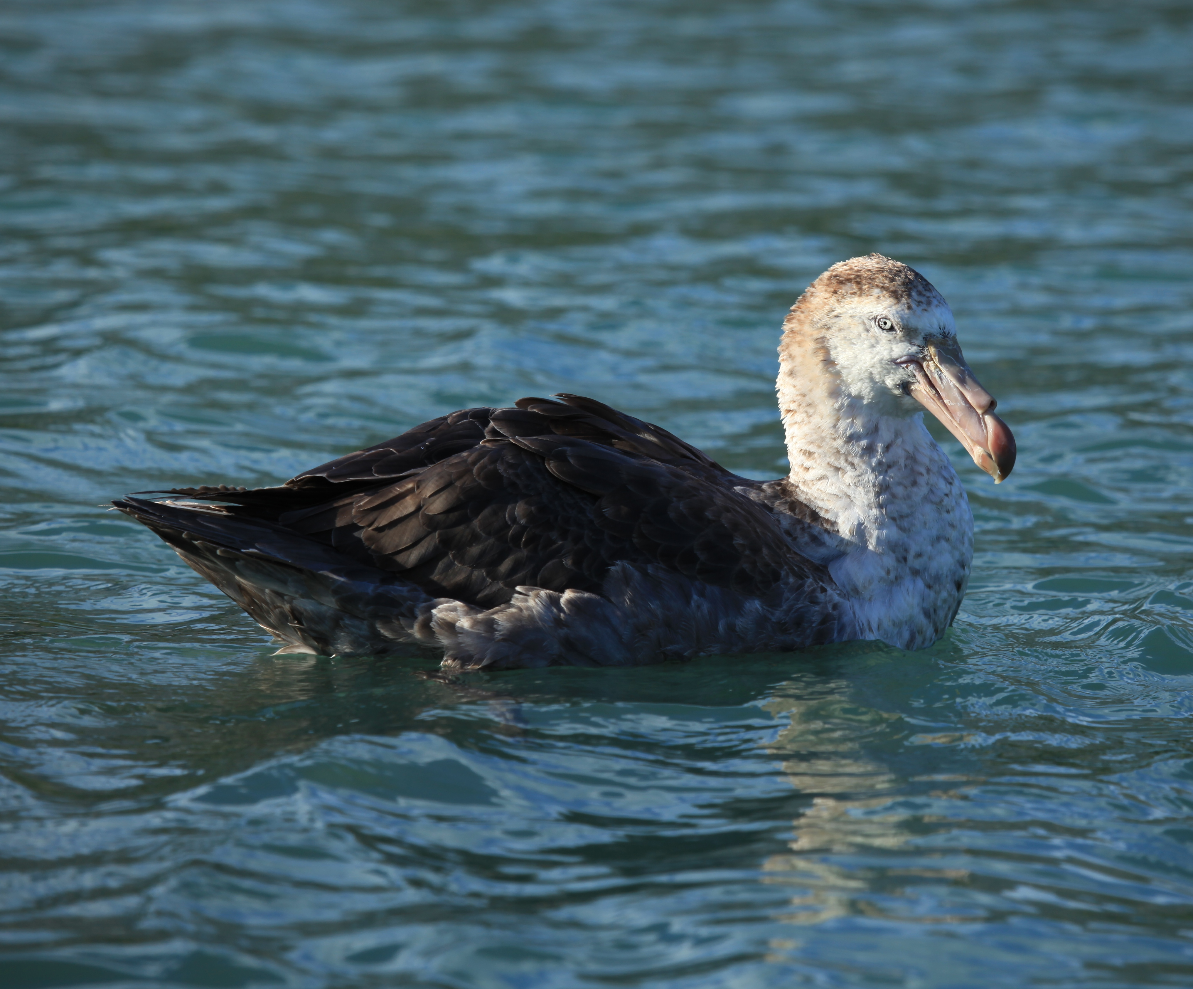 A Northern Giant Petrel swimming in Cooper Bay, South Georgia, British Overseas Territories, UK.